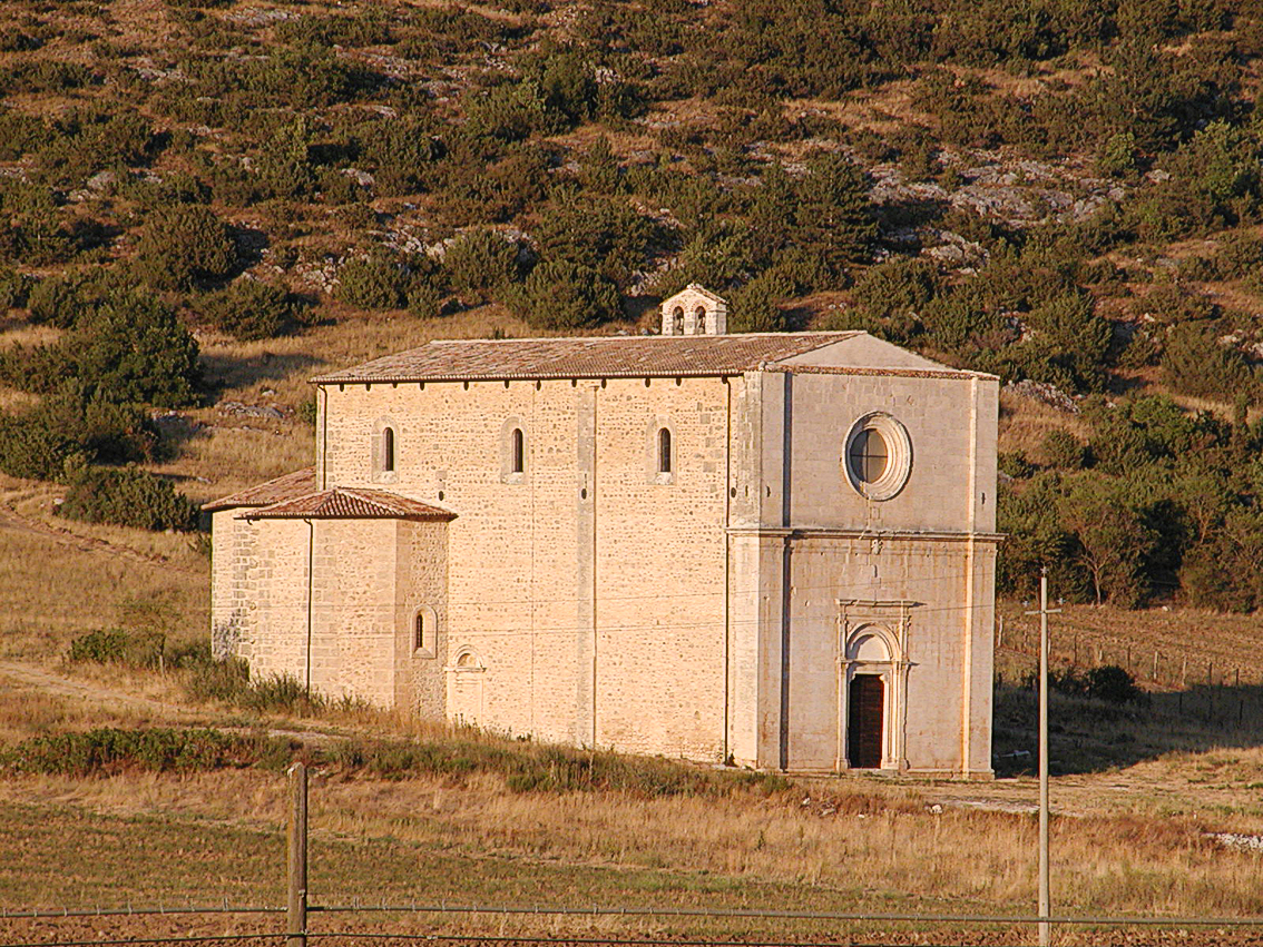 Caporciano (AQ): Church of Santa Maria dei Cintorelli